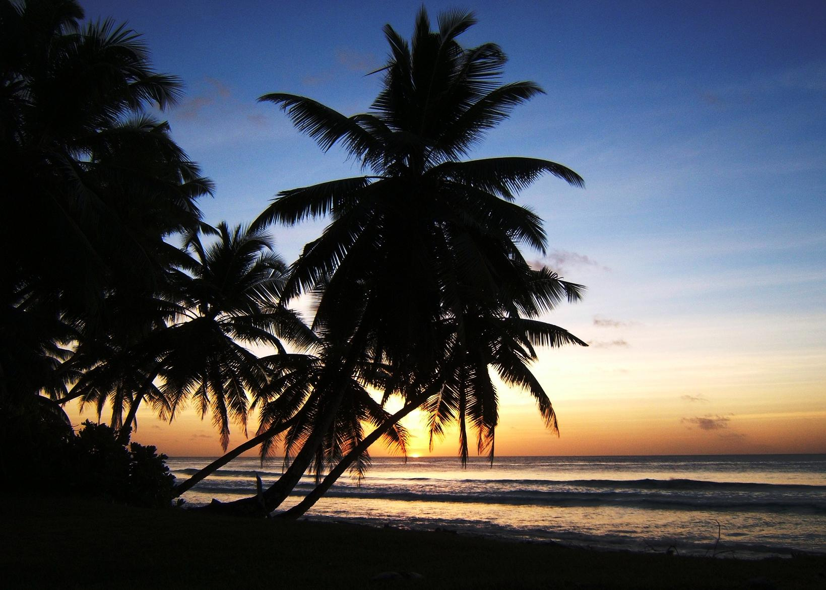 looking west over the Indian Ocean from Cannon Point at sundown.